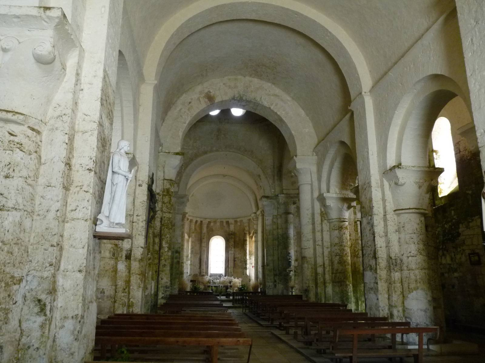 Inside of the church of Cellefrouin, Charente, France